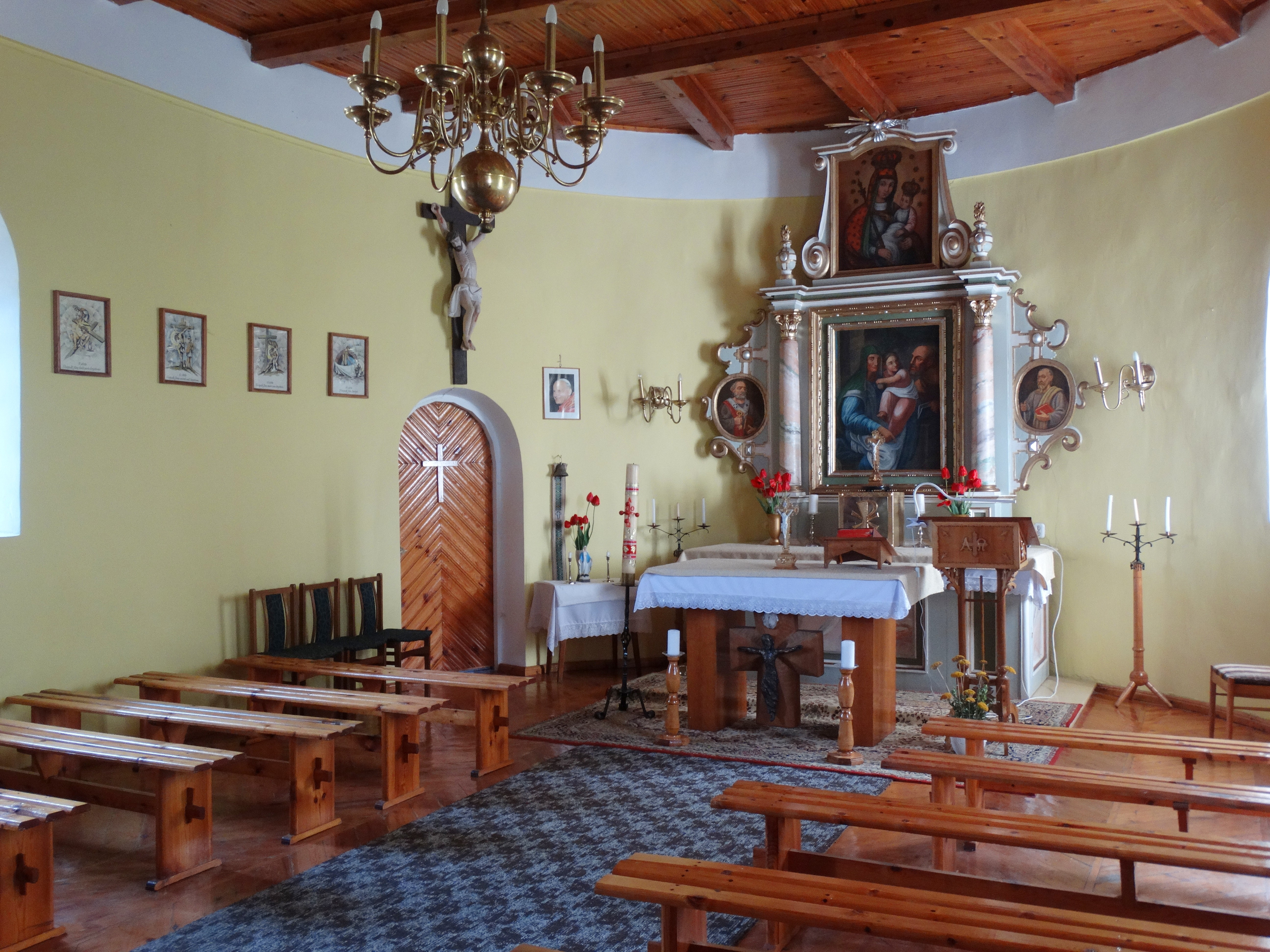 Alksniupiai, chapel, Radviliškis District, Lithuania